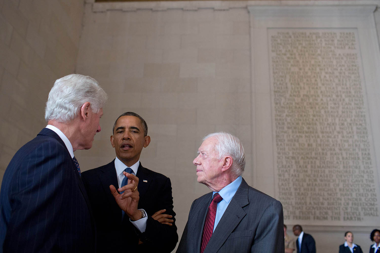 President Barack Obama talks with former Presidents Bill Clinton and Jimmy Carter prior to the Let Freedom Ring ceremony to commemorate the 50th anniversary of the historic March on Washington for Jobs and Freedom, at the Lincoln Memorial in Washington, D.C., Aug. 28, 2013.